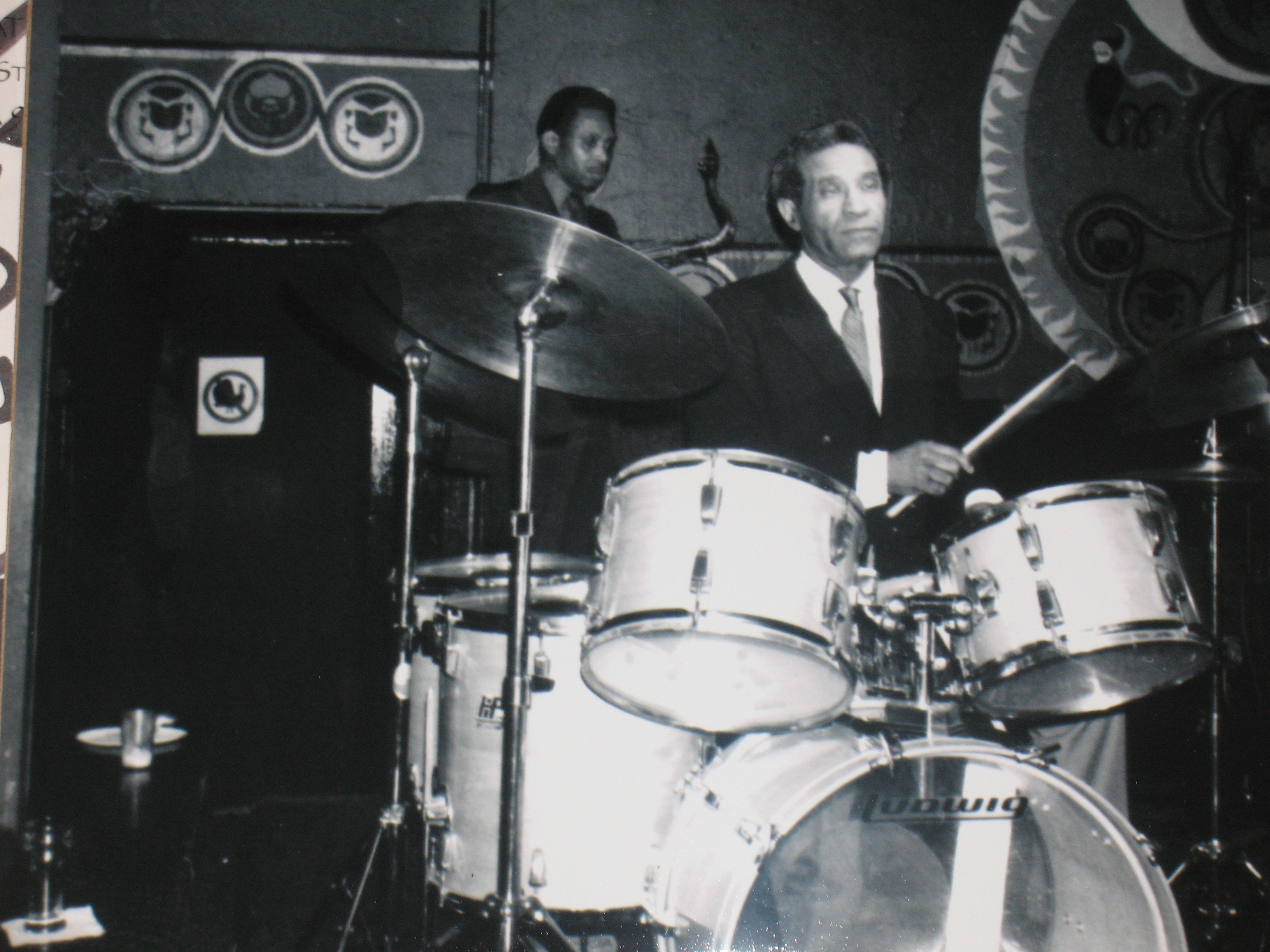 Max Roach American Jazz Drummer with saxophonist Odeon Pope at Keystone Korner San Francisco Tuesday February 22nd 1981 photo by Jon Hammond. Max Roach died August 17 2007 in Manhattan. Photo by Organist Jon Hammond, Member AFM Local 802 Musicians Union.